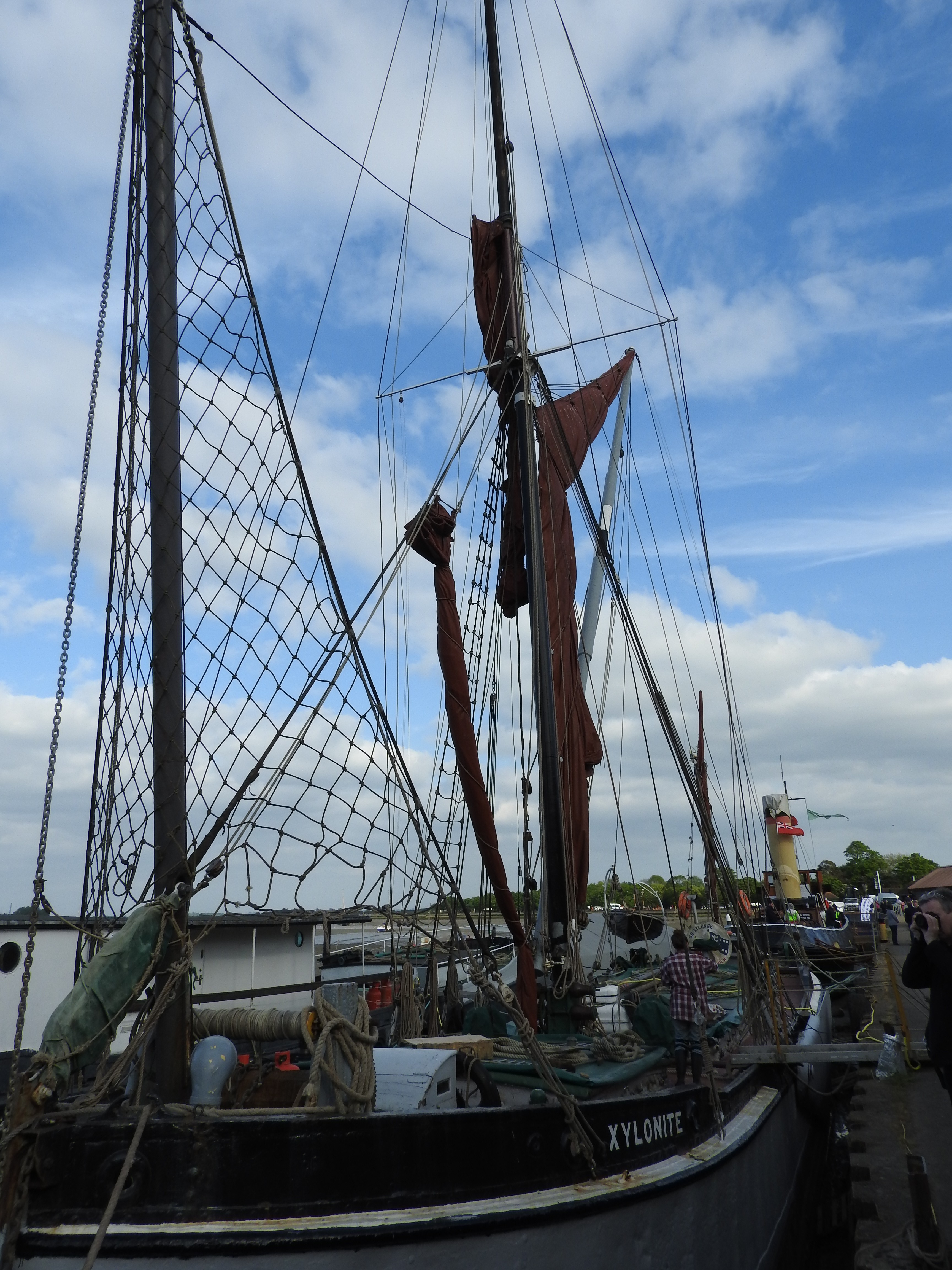 Thames sailing barge Xylonite at Maldon, Essex